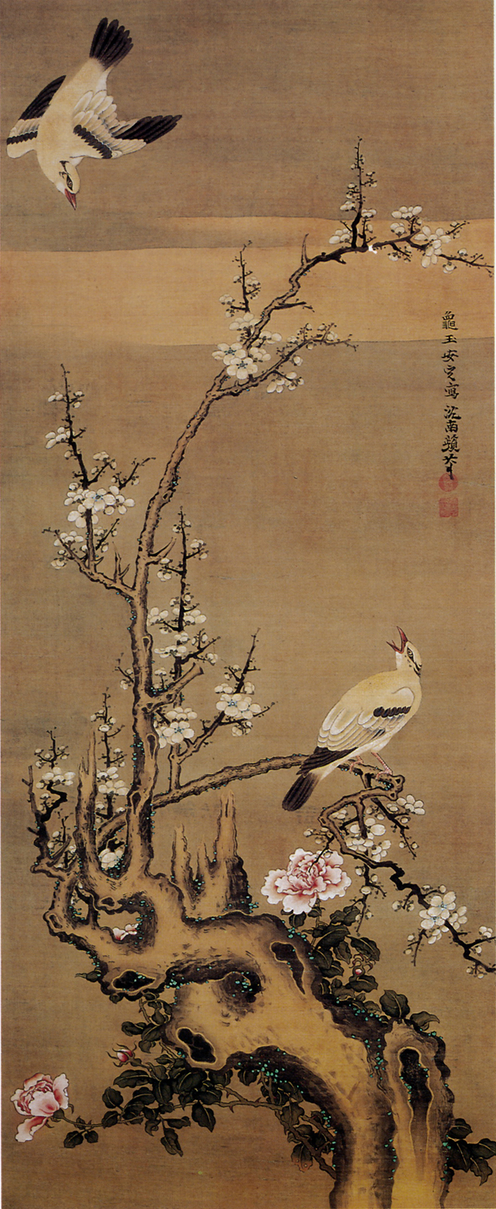 Kurokawa Kigyoku,White Plum Blossoms and Yellow Birds,A hanging scroll,Color on silk,Middle Edo period.